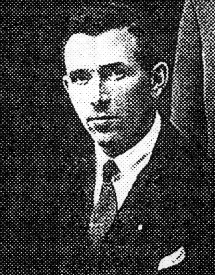 Crop of: Gustav Simon (center) with family in the 1930ties.